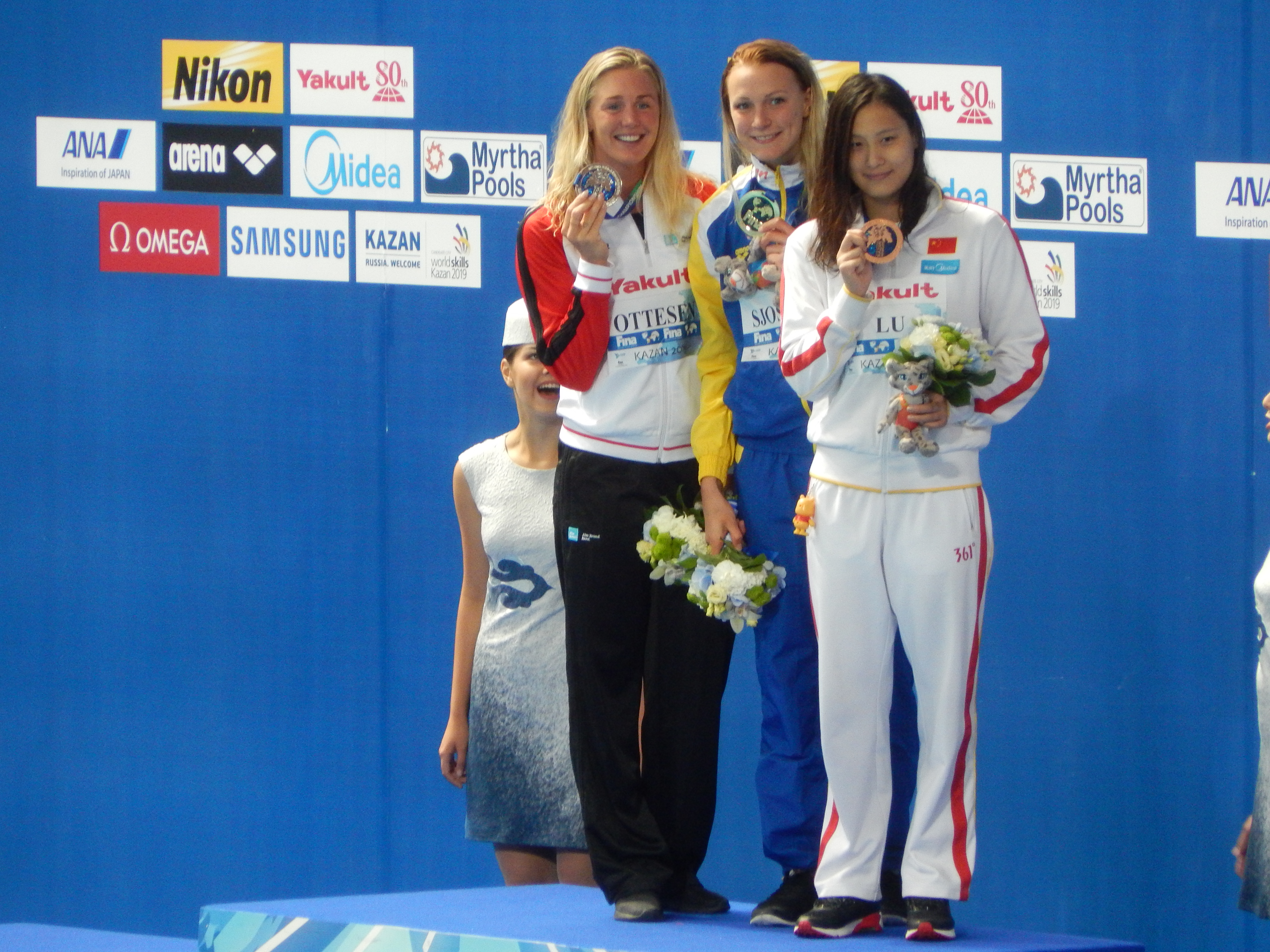 Medallists at the women's 100 metres butterfly in Kazan 2015